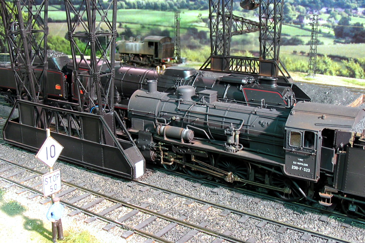 Detail of a French Zero Scale (1:43,5 ; 7mm scale) railroad, made by Michel Hugon, model of a train engine facility.